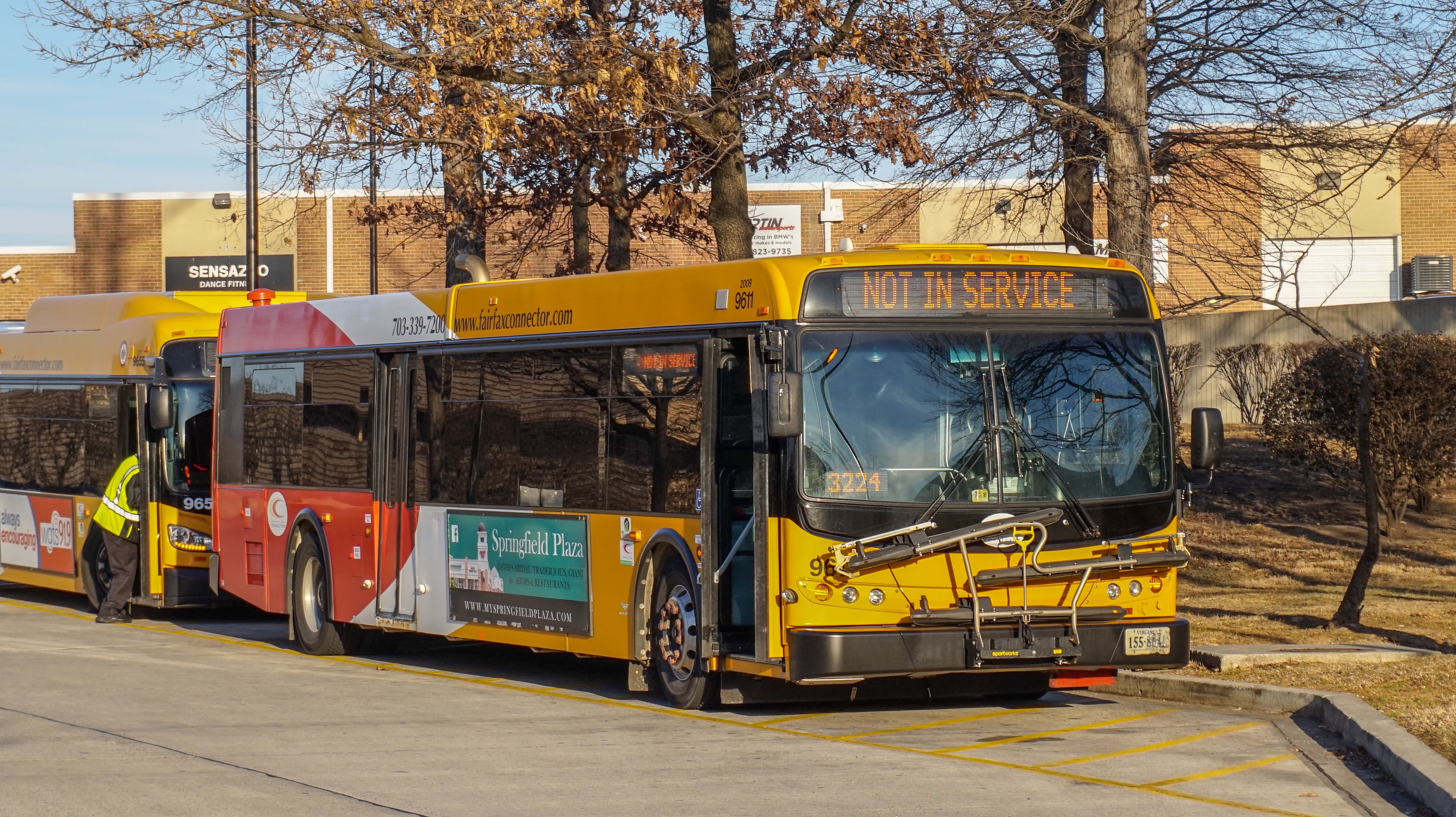 2009 Fairfax Connector NF D40LFR at Van Dorn St Station